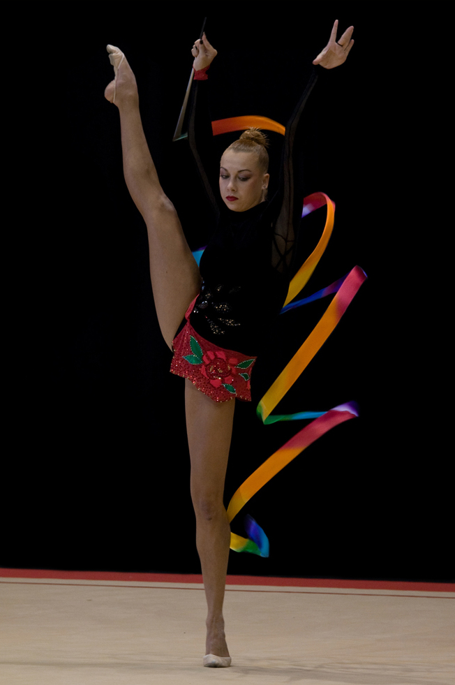 Natalia Godunko. VII World Cup RG. Benidorm 2008